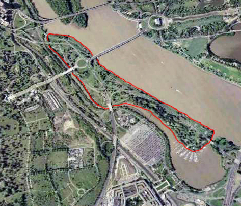 Aerial view of Columbia Island (outlined in red) in the Potomac River in Washington, D.C., in the United States. Arlington Memorial Bridge enters the island from the northeast, connecting it to the Lincoln Memorial. A large memorial plaza and traffic circle, constructed in the 1930s, connects Arlington Memorial Bridge to Lee Highway, the George Washington Memorial Parkway, and the Boundary Channel Bridge. The many piers of the Columbia Island Marina jut into the Bounday Channel and Pentagon Lagoon on the southwest corner of the island. The Potomac River runs along the island to the northwest. The Lincoln Memorial and a portion of the Tidal Basin can also be seen. The Boundary Channel (west and southwest of the island) is part of the Potomac River. The Boundary Channel Bridge links Columbia Island to Memorial Drive and the ceremonial entrance to Arlington National Cemetery (left side of the image). The Pentagon can be seen to the bottom of the image, and just north of that its large parking lots. Upstream (upper center portion of this image) is the Theodore Roosevelt Bridge, and Theodore Roosevelt Island. The skyscrapers of Rossyln, Virginia, can just be seen in the far upper left corner of the image.